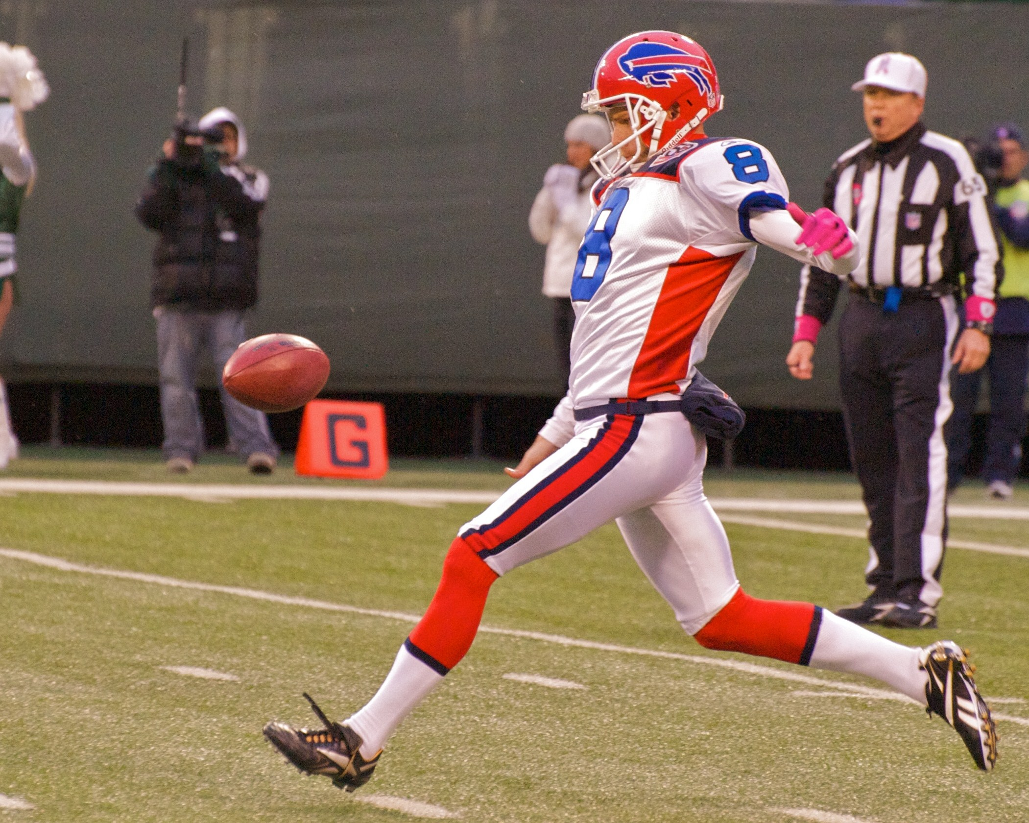 NY Jets vs. Buffalo, Oct 2009 - 32 for details